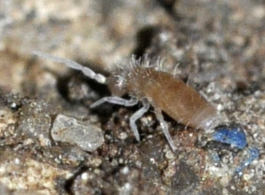 Heteromurus nitidus (Templeton, 1835). Body length 1.5 mm without antennae. Germany: Niedersachsen, Göttingen.